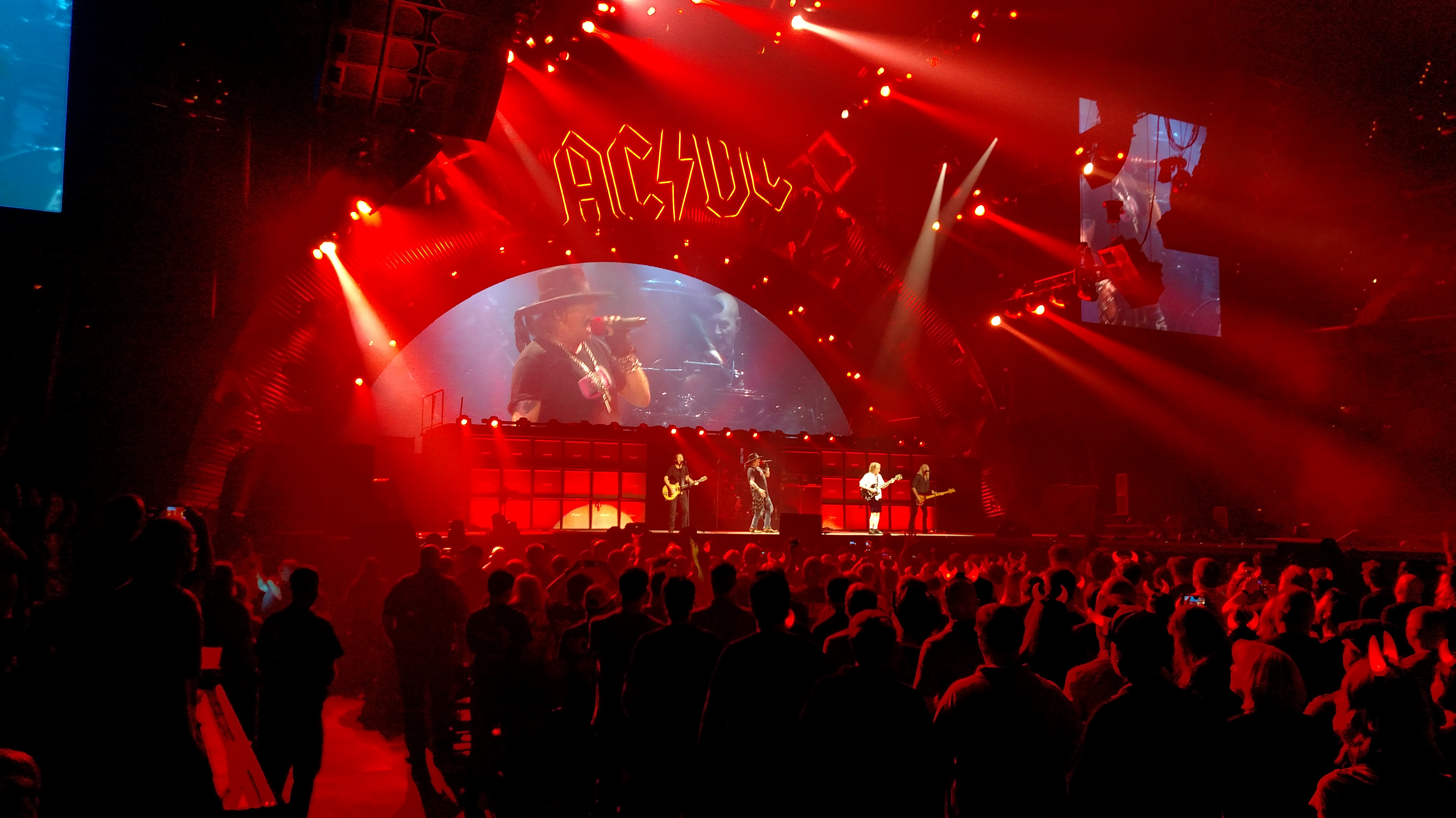 AC/DC with Axl Rose performing at the Verizon Center in Washington, D.C. for the "Rock or Bust Tour" on September 17, 2016. On stage from left to right: Stevie Young, Axl Rose, (obscured behind Axl but visible on the monitor, Chris Slade), Angus Young, and Cliff Williams